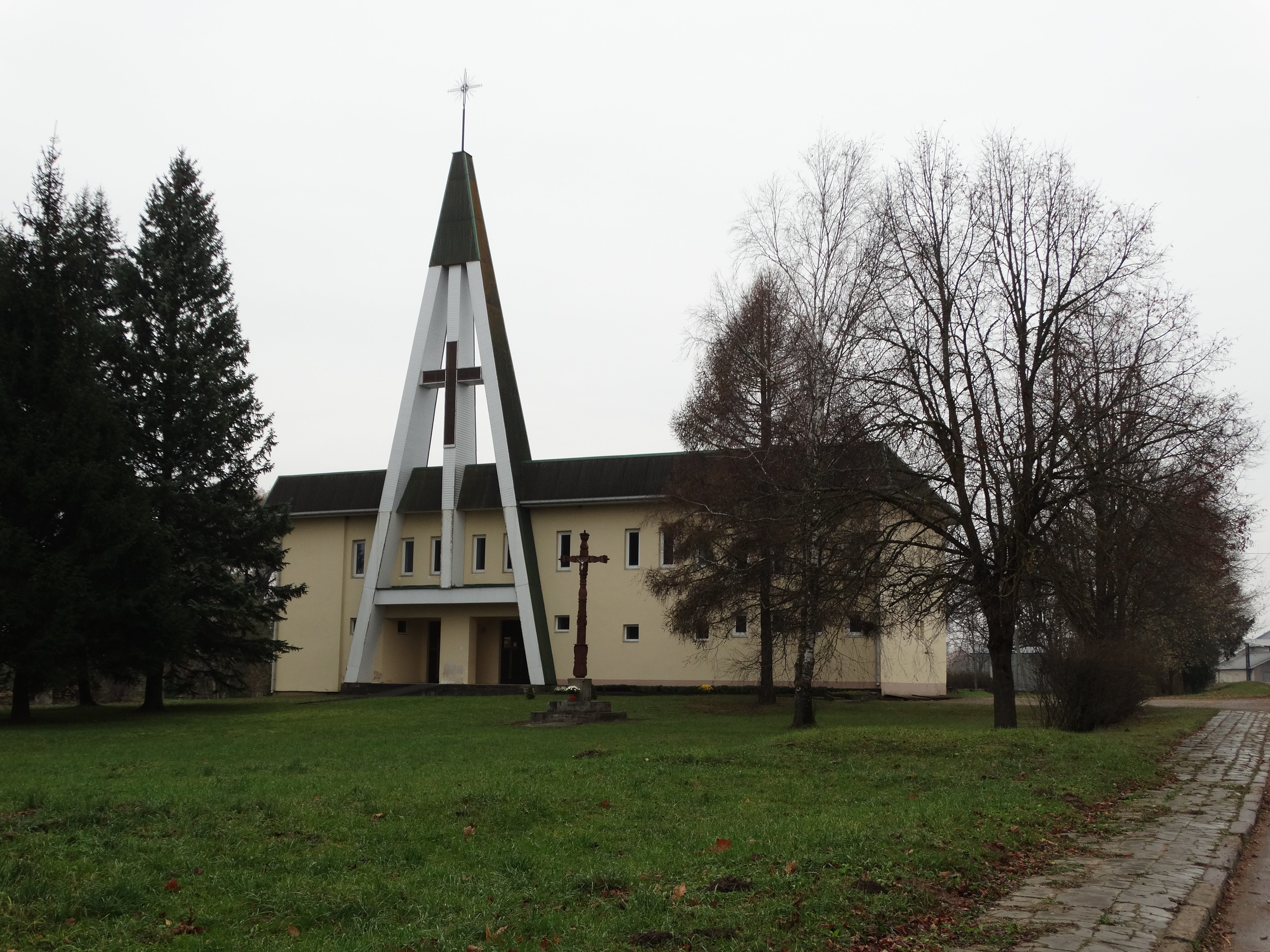 Roman Catholic Church in Grūžiai, Pasvalys district, Lithuania